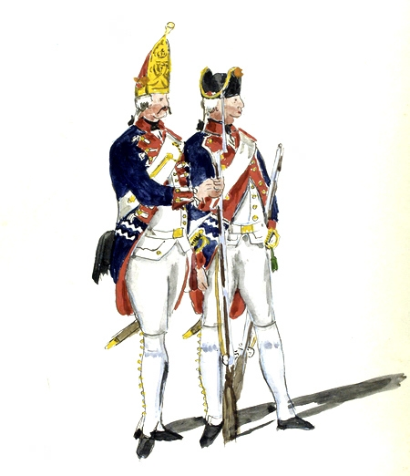 German Subsidienkorps 1788